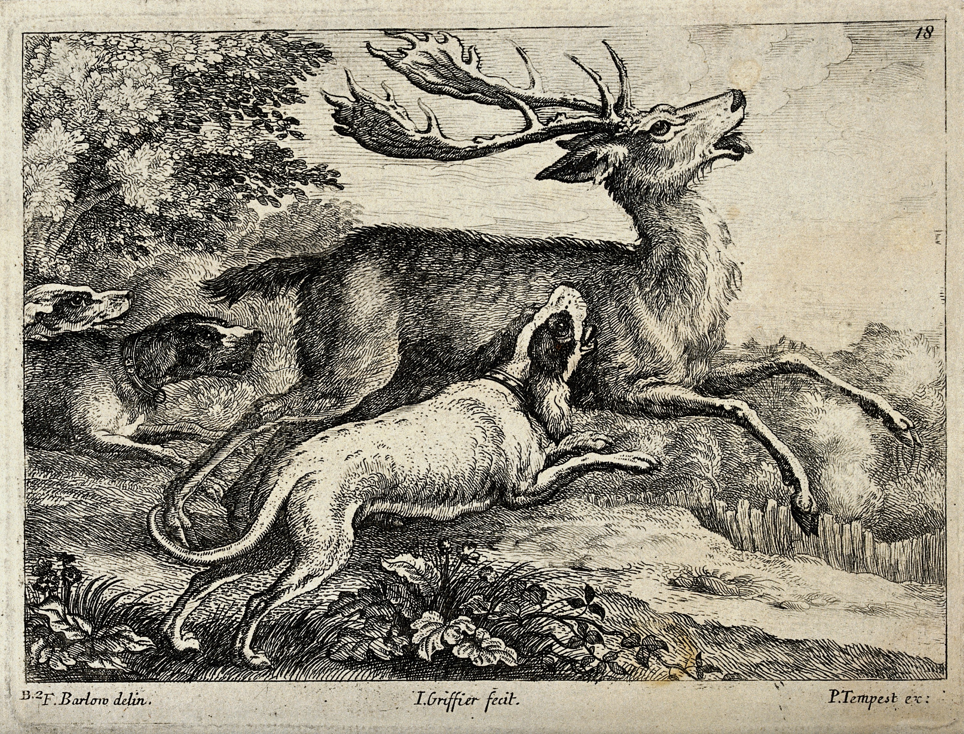 A pack of dogs is attacking a running stag. Etching by I. Griffier after F. Barlow. Iconographic Collections Keywords: Francis Barlow; Jan Griffier